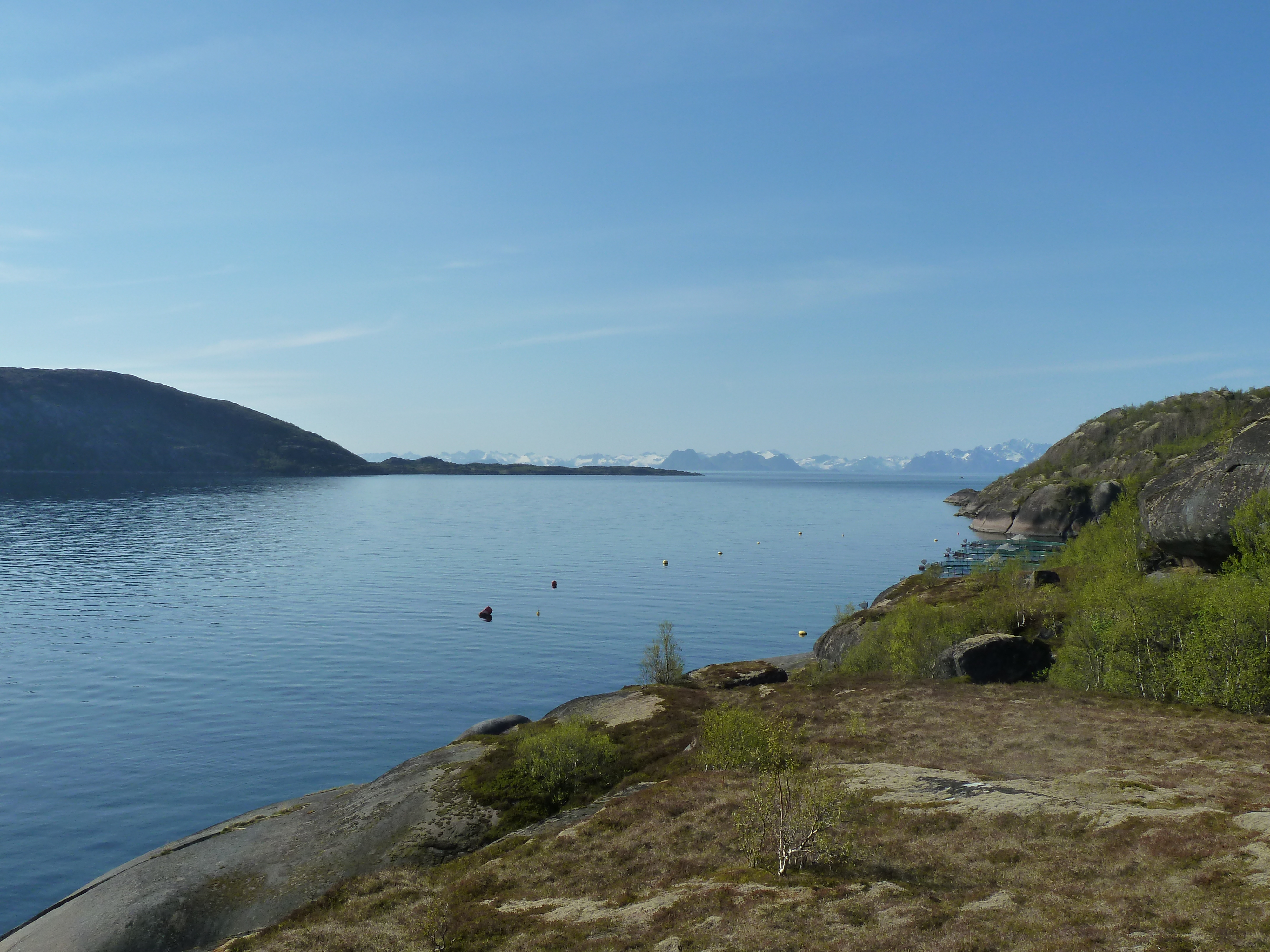 Økssundet with the Lofoten mountains in the background.